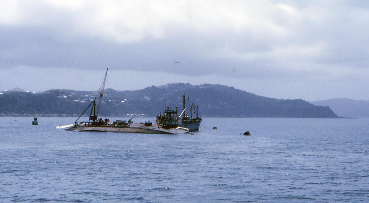 Original caption: "The New Zealand inter-island ferry 'Wahine' sank in the entrance to Wellington Harbour on 10 April 1968, with 51 of the 764 on board losing their lives. The vessel foundered across the main shipping channel, so by the time we went past her on 24 April, salvage operations were already well established."